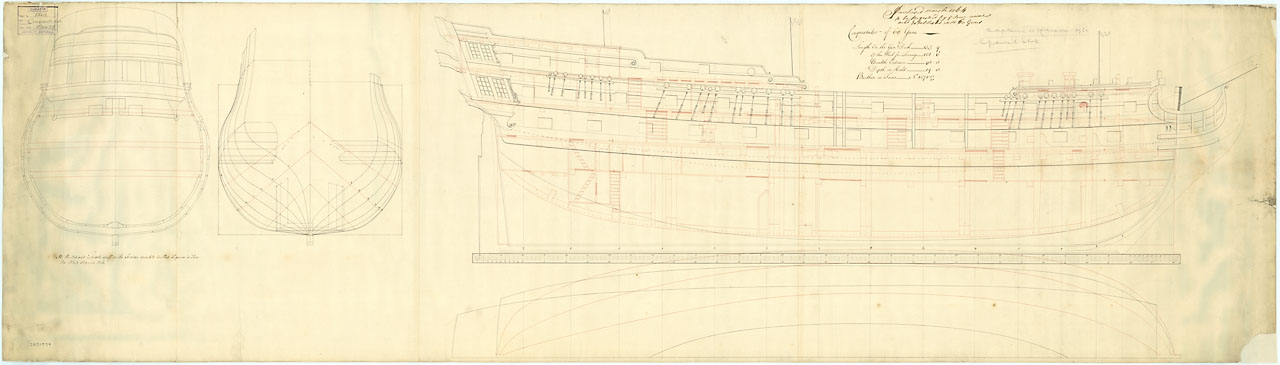 Conquestador (captured 1762) Scale: 1:48. Plan showing the midship section with sternboard outline, the body plan, sheer lines with inboard detail, and longitudinal half-breadth for Conquestador (captured 1762), a captured Spanish Fourth Rate. The plan is likely to record her 'as taken off' rather than 'as fitted'. NMM, Progress Book, volume 2, folio 161, states that 'Conquestadore' arrived at Woolwich Dockyard on 20 September 1763 and was docked on 6 December 1763 where she was surveyed. She was undocked on 3 January 1764. The work cost £309.13s.0d. CONQUESTADOR FL.1762 [SPANISH]